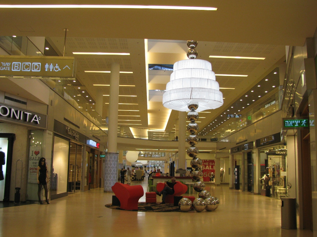 Simple and pleasant space for movement